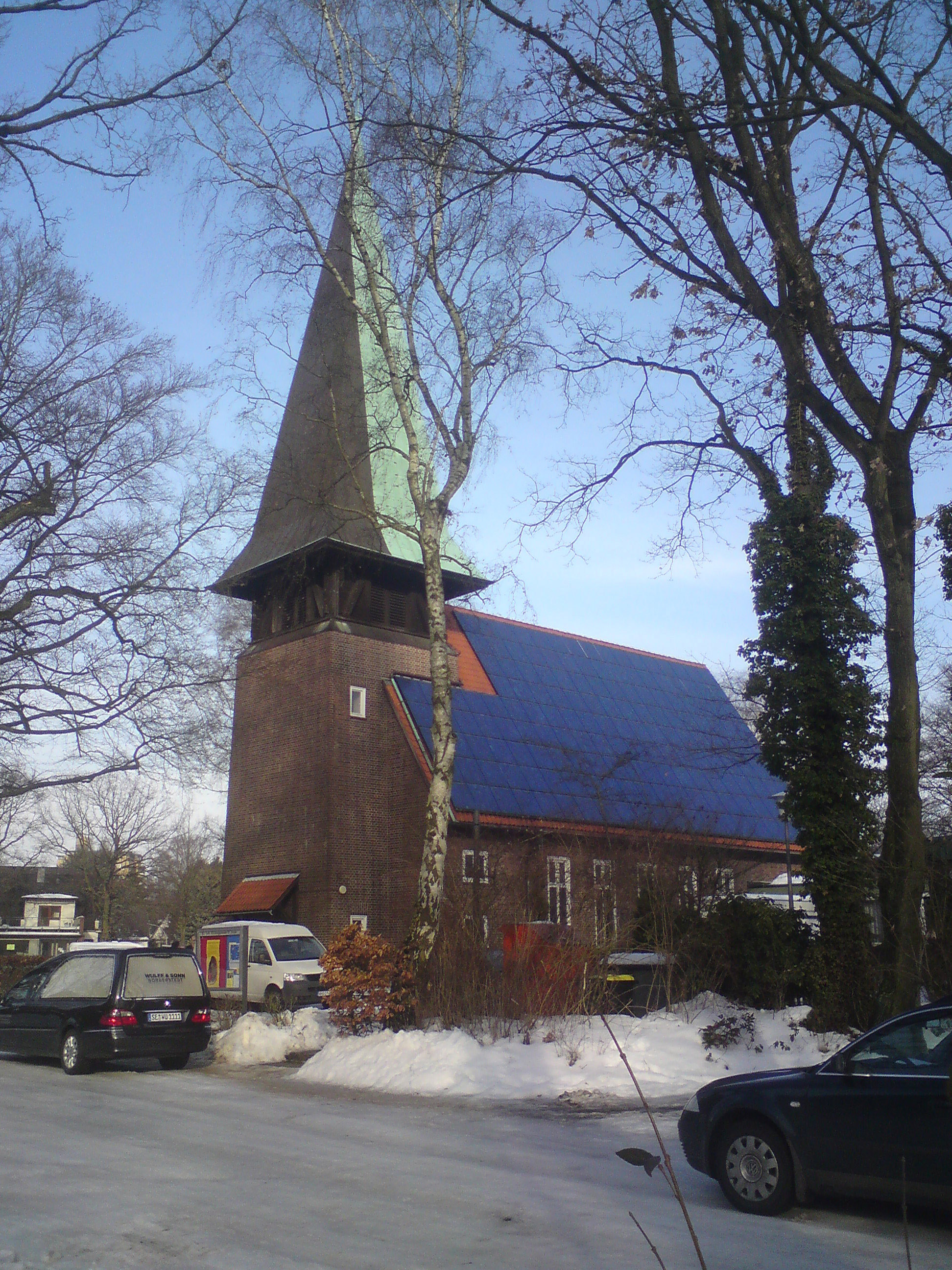 St George Church, Hamburg, Germany